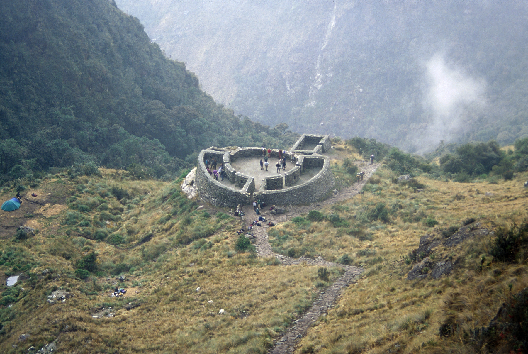 Ruins of rest-hut (Inca trail, Peru).